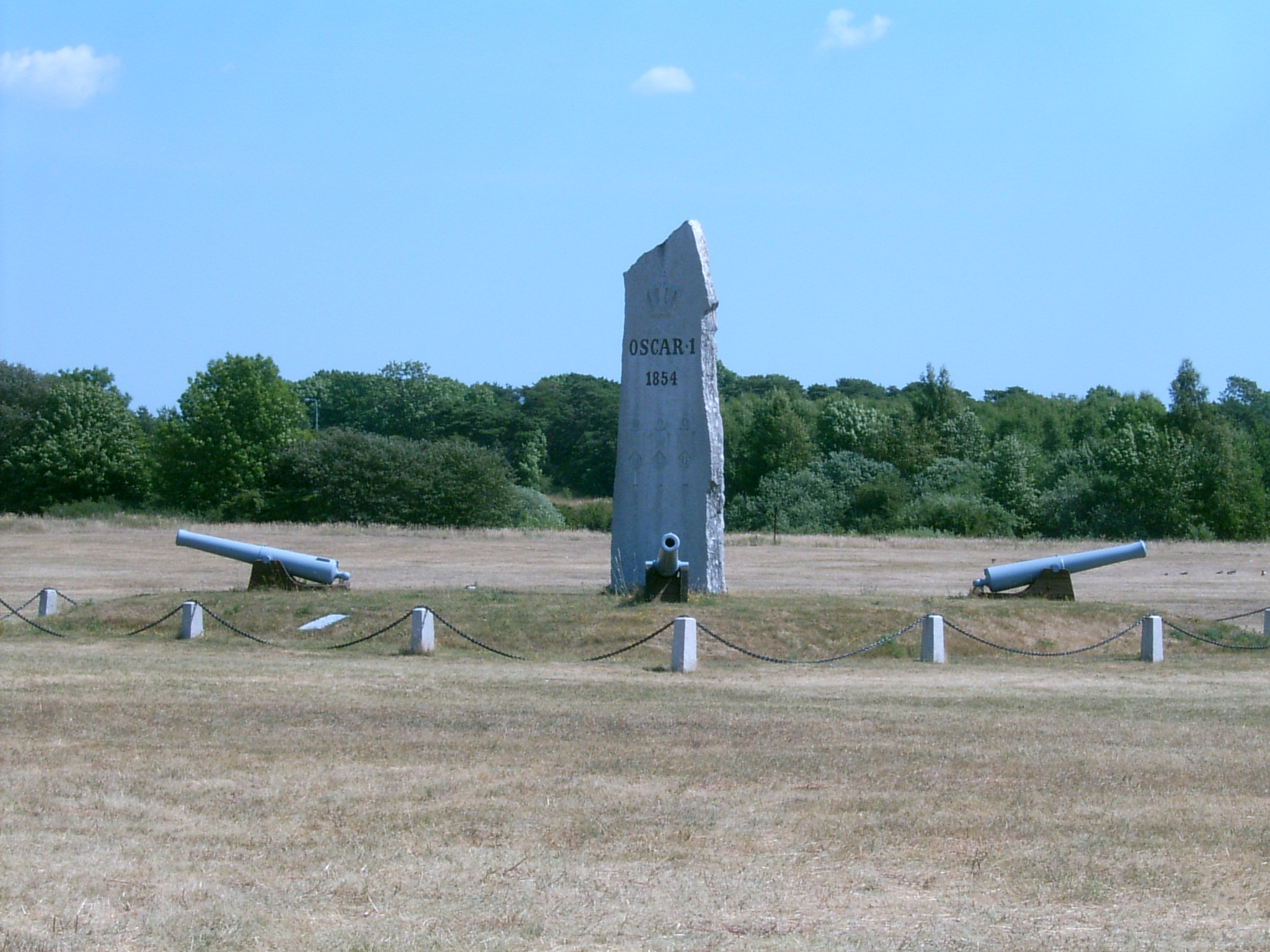 The Oskar-stone (Oscarstenen) in Visby, Sweden.